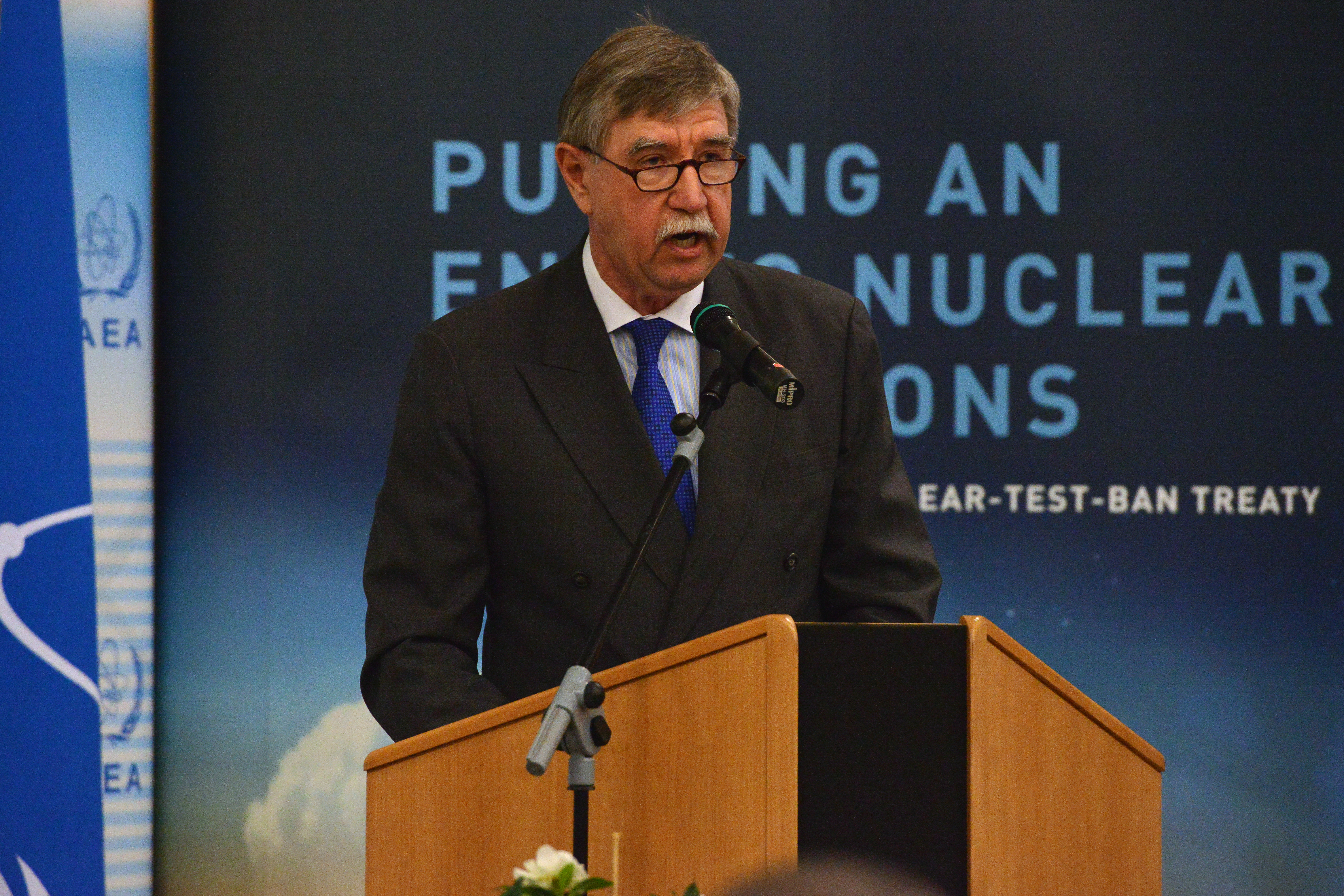 Resident Representative of the Federal Republic of Germany, Ambassador Konrad Max Scharinger, speaking at the official opening of the exhibition marking the 75th anniversary of the discovery of nuclear fission. Vienna International Centre, Vienna, Austria, 25 November 2013. Photo Credit: Dean Calma / IAEA